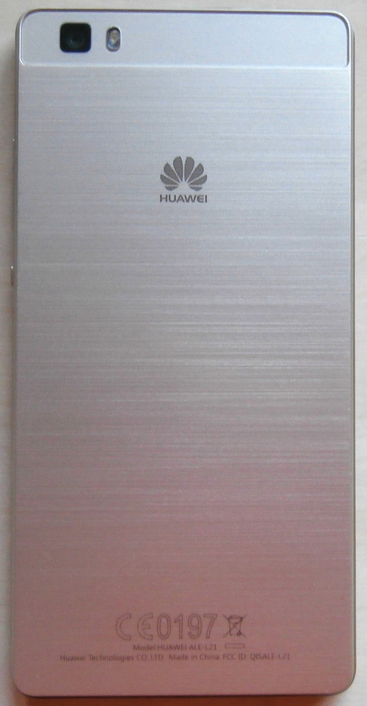 Huawei P8 Lite smartphone (model ALE-L21)